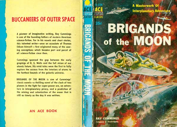 Brigands of the Moon - Ray Cummings - Book cover - Project Gutenberg eText 19066